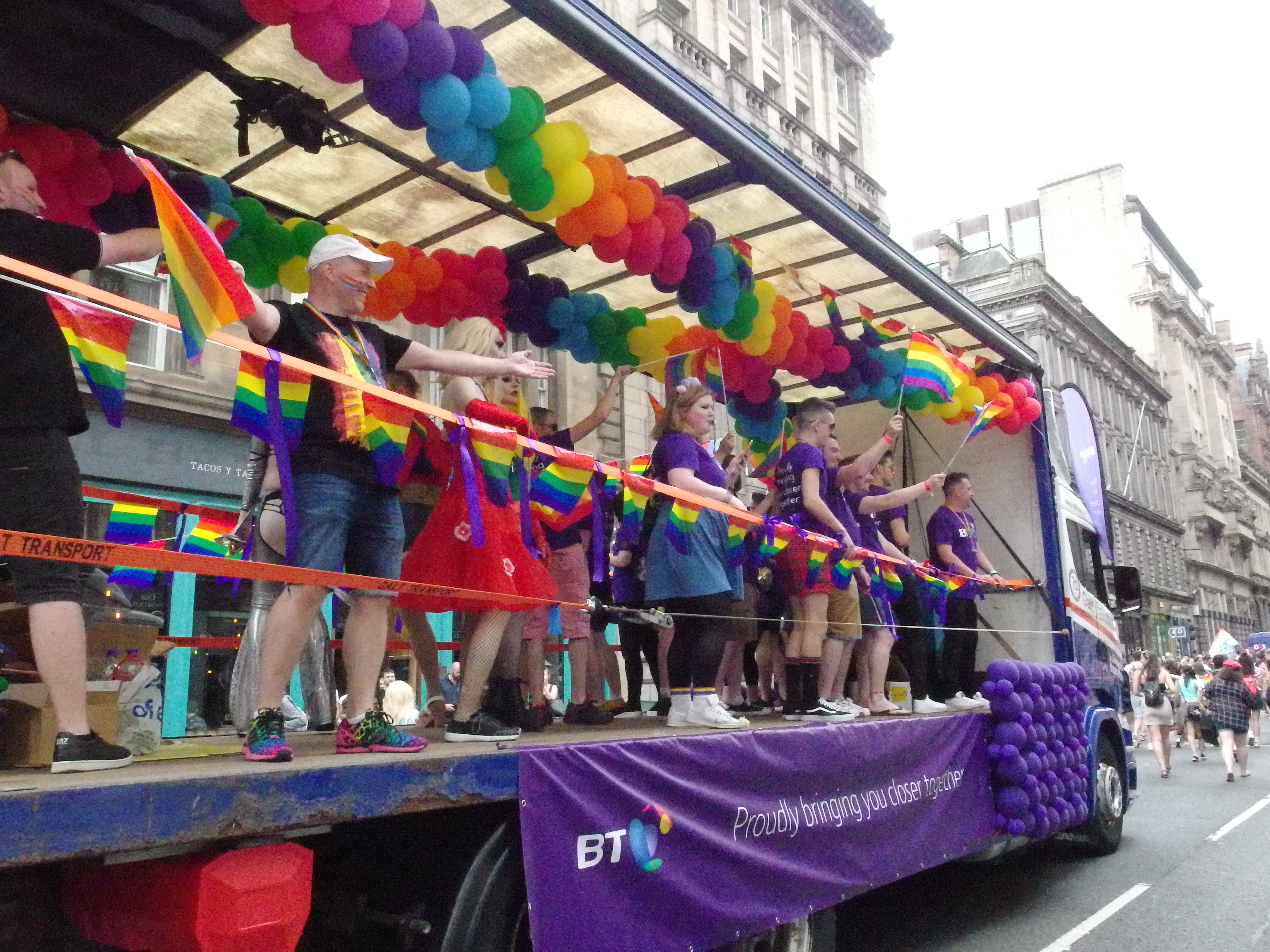 Glasgow Pride 2018 parade on 15 July 2018